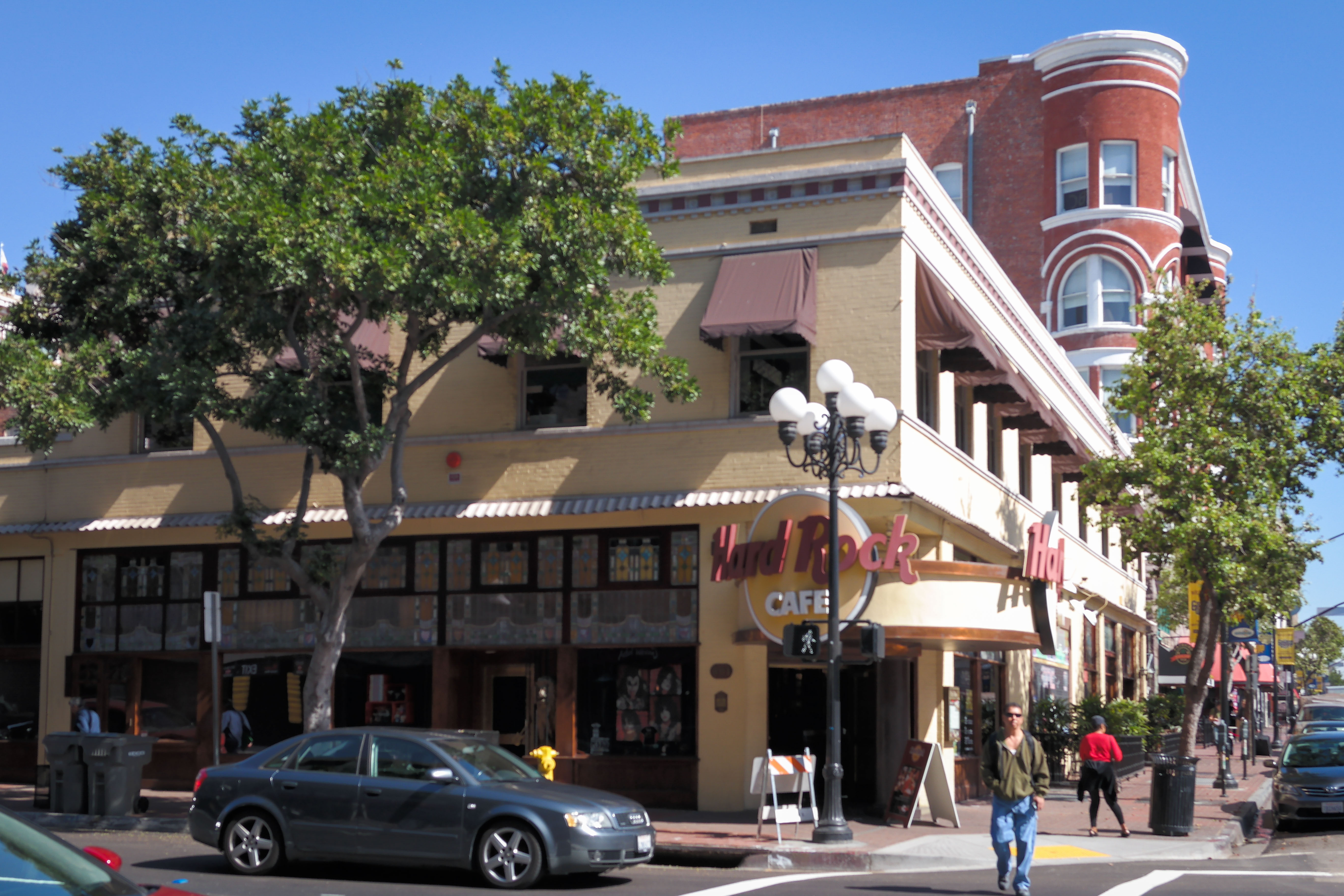 Historic Building Survey plaque: "15 Ingle Building, Golden Lion Tavern, 1906. For many years, the bottom floor of this building was known as the Golden Lion Tavern, its legacy still evident in original lion sculptures near the entrance and along the outer walls. The stained glass windows on Fourth Avenue and some of the flooring are original as well. In 1980, the second floor was destroyed by fire. During its reconstruction, a salvaged glass dome, originally created for the Elks Club in San Francisco in 1906, was installed. The replicated mural on the outer wall depicts the camaraderie found in the Golden Lion during the early years of the Gaslamp Quarter." The building is also known as the Hard Rock Cafe.